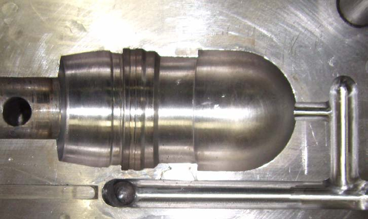 40 mm grenade cartridge mold cavity